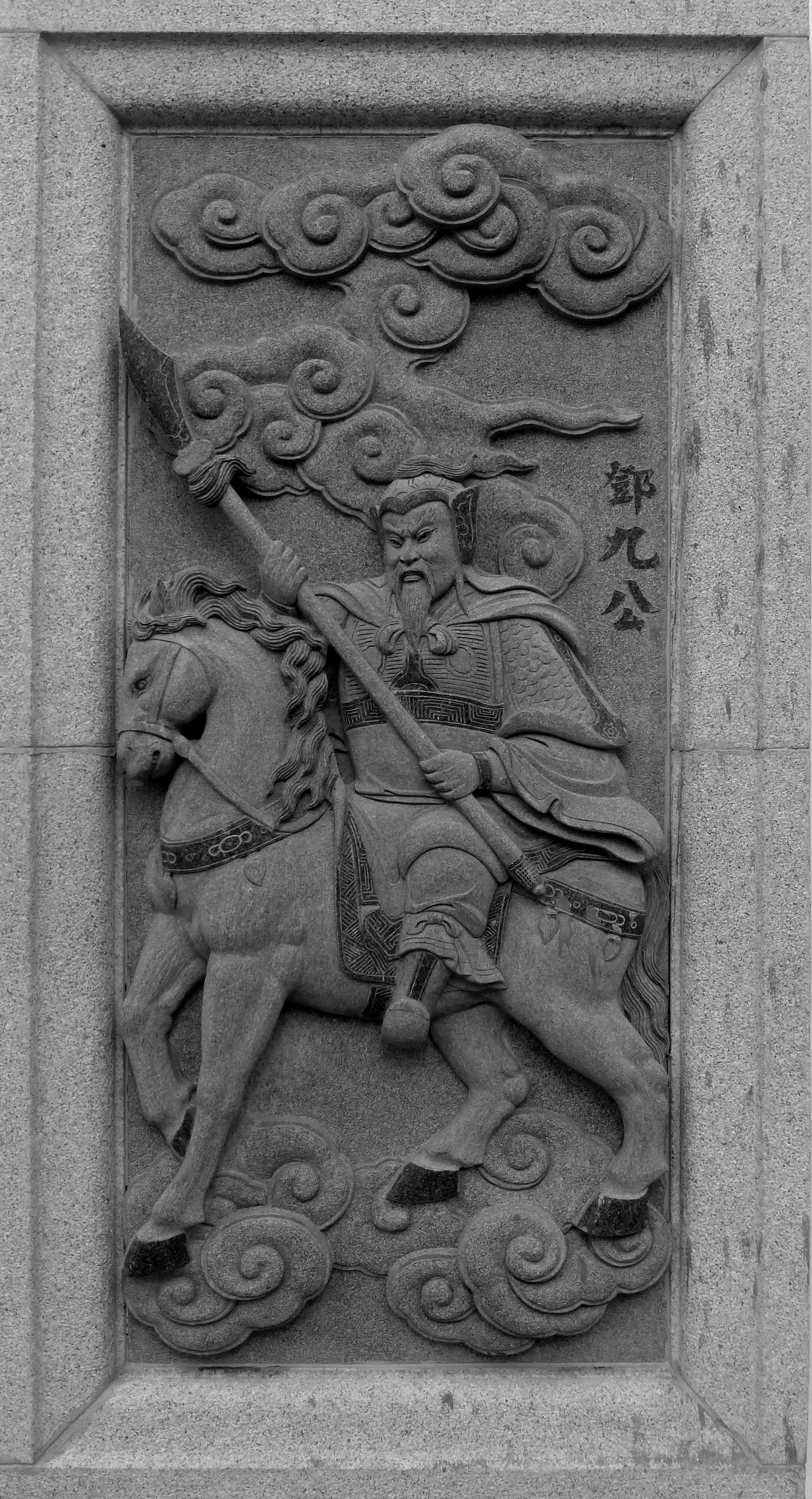 080 Deng Jiu Gong, Investiture of the Gods at Ping Sien Si, Pasir Panjang, Perak, Malaysia Photograph from the Ping Sien Si Temple in Perak, Malaysia taken by Anandajoti.